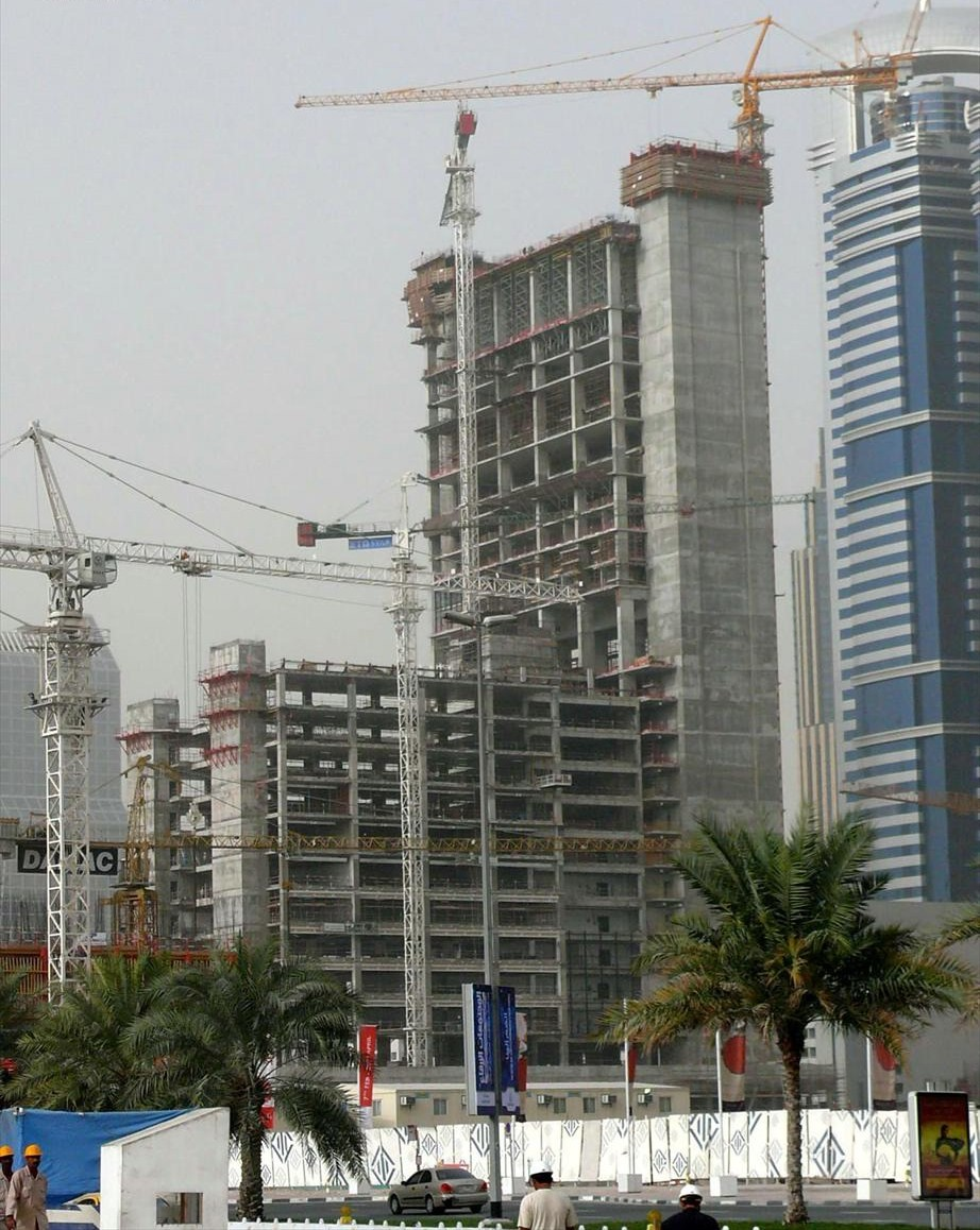 This is a photo showing the construction of Liberty House, located in the Dubai International Financial Centre in Dubai, United Arab Emirates, on 23 February 2008.